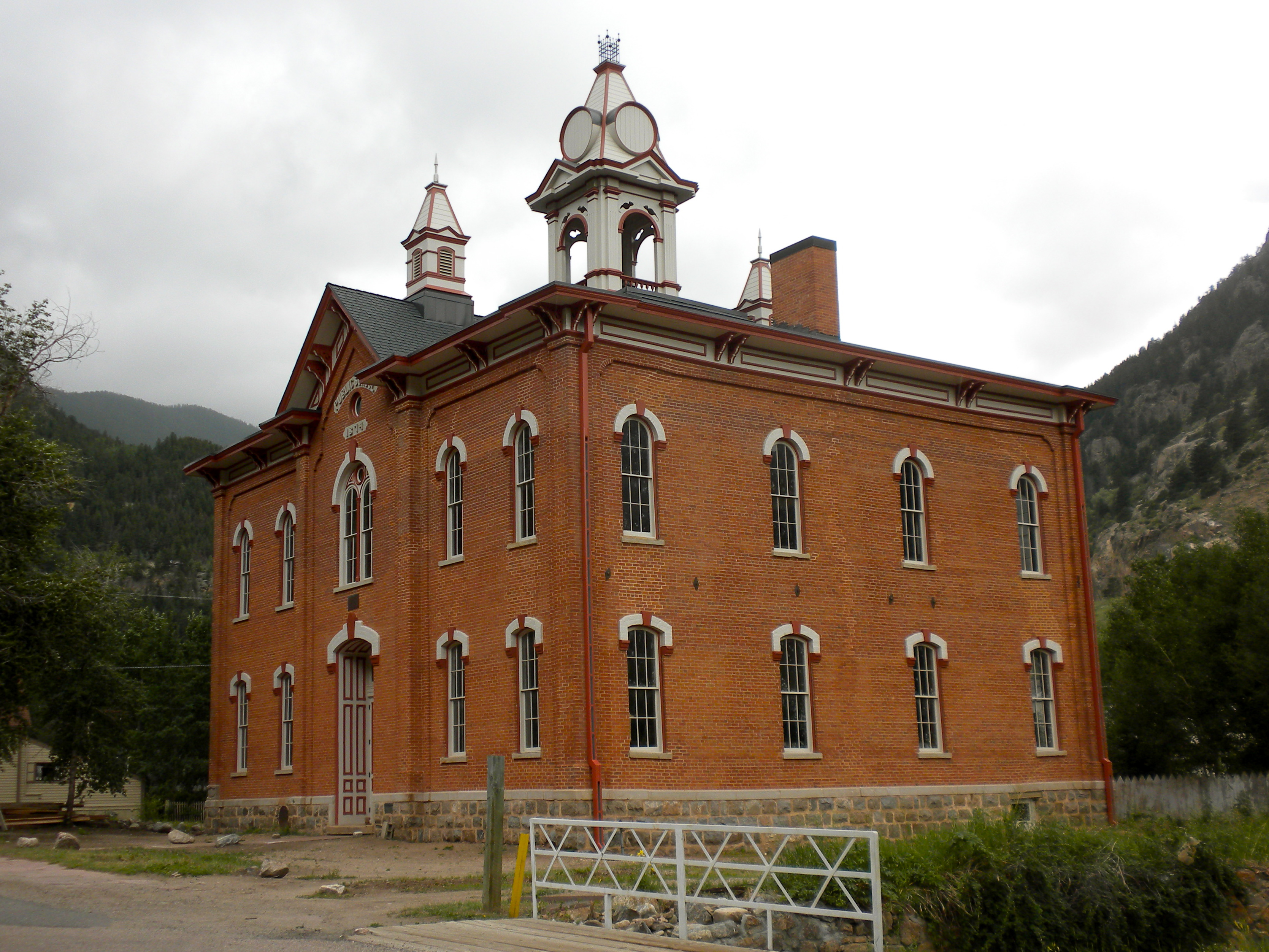 Georgetown (CO) School (Now called the Georgetown Heritage Center), part of the Georgetown-Silver Plume Historic District on the NRHP since November 13, 1966. HD borders Interstate 70, in Georgetown and Silver Plume, Colorado